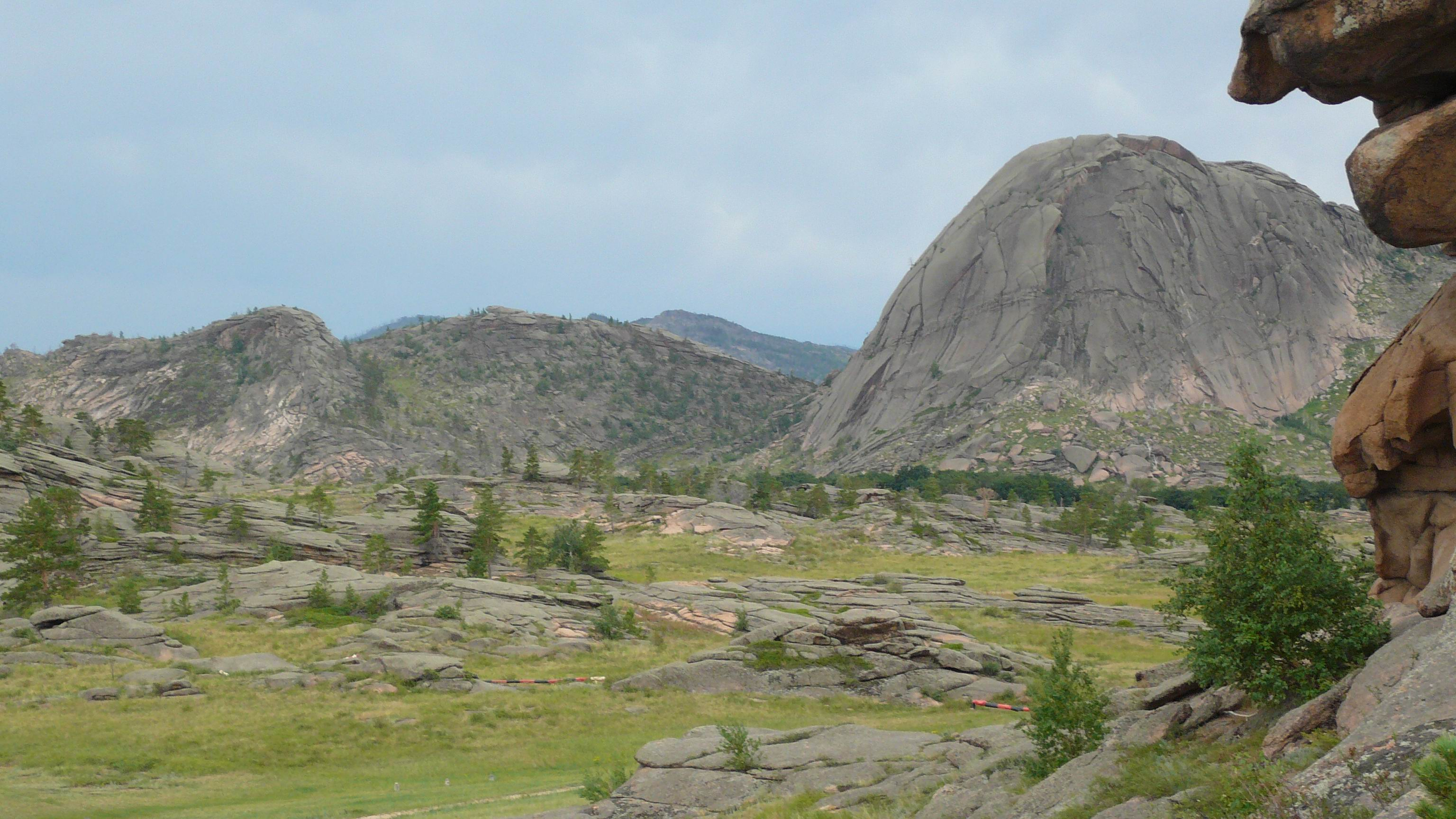 Landscape of Bayanaul with mount Bulka (Loaf) on the right known for six lakes located at the top of it